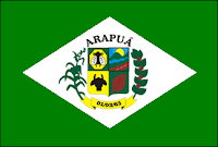 Flags of the city of Arapuá, Minas Gerais , Brazil.